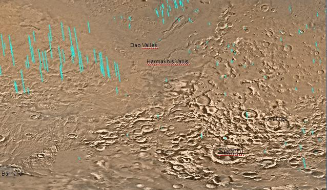 Hellas quantangle map